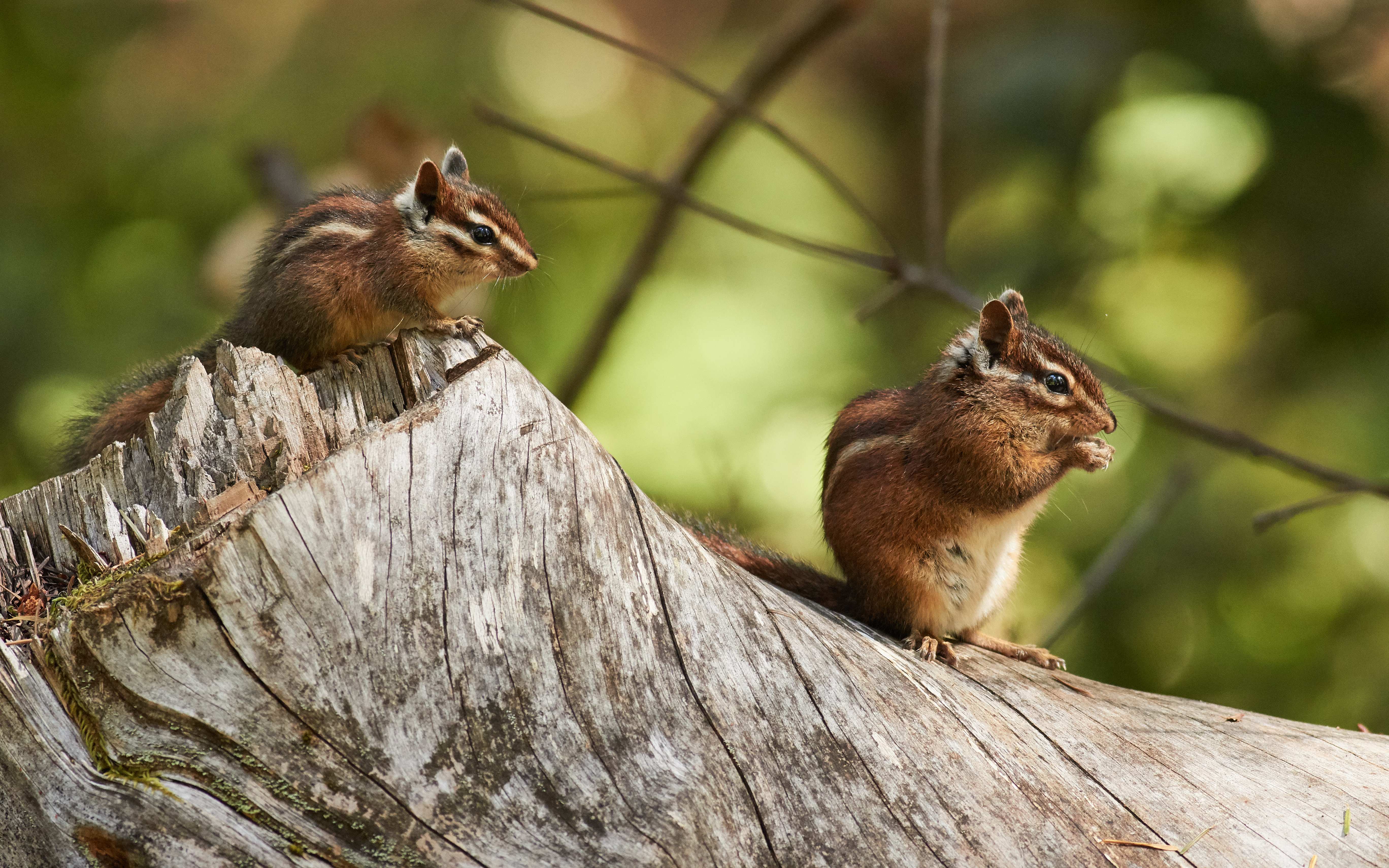 Sonoma chipmunk (Tamias sonomae) at Samuel P. Taylor State Park, Marin County, California, United States. Juvenile (left) and adult (right).